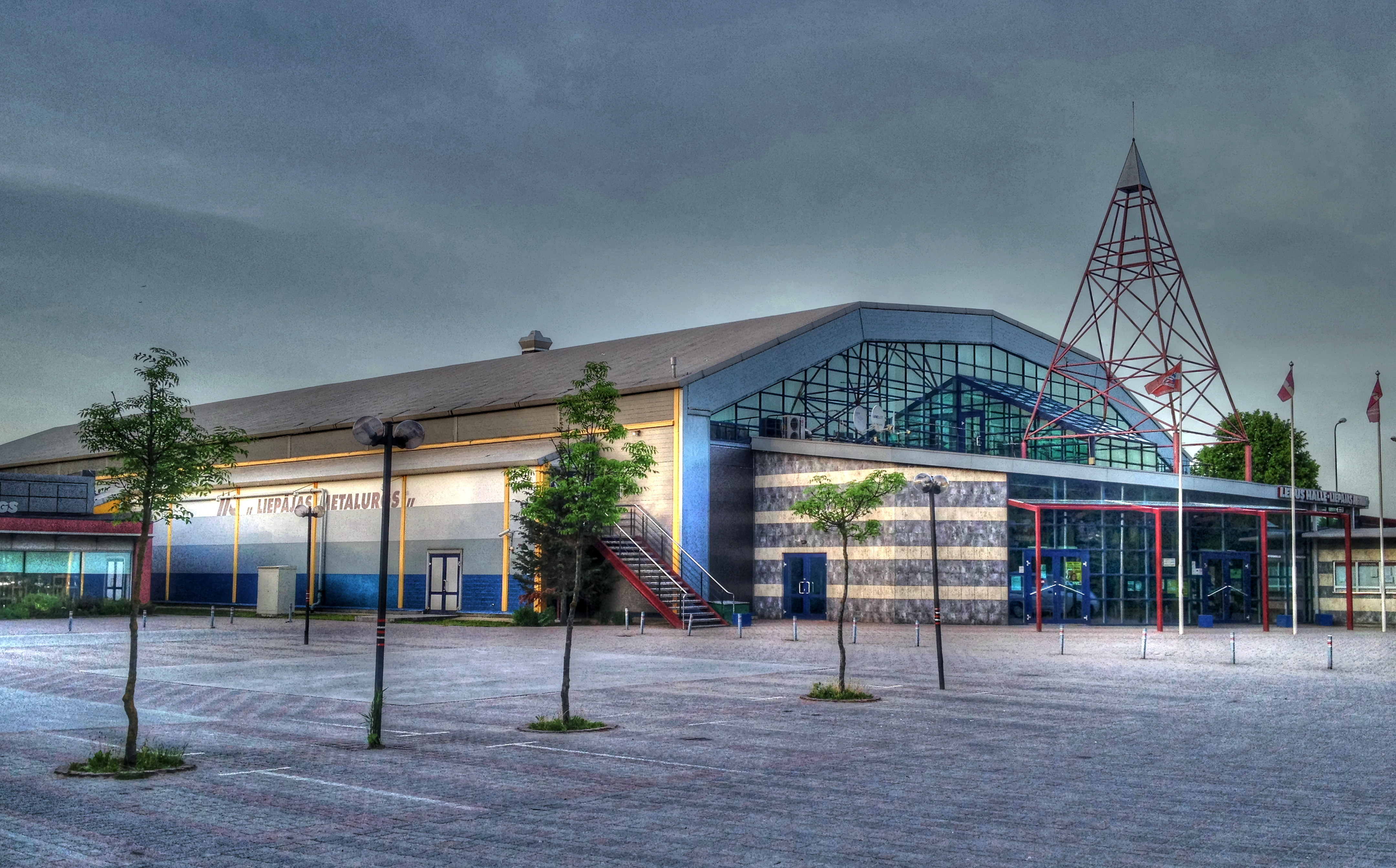 Collection